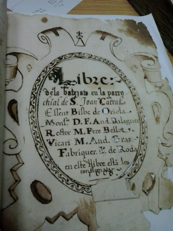 Llibre de batejos de Catral, segle XVI